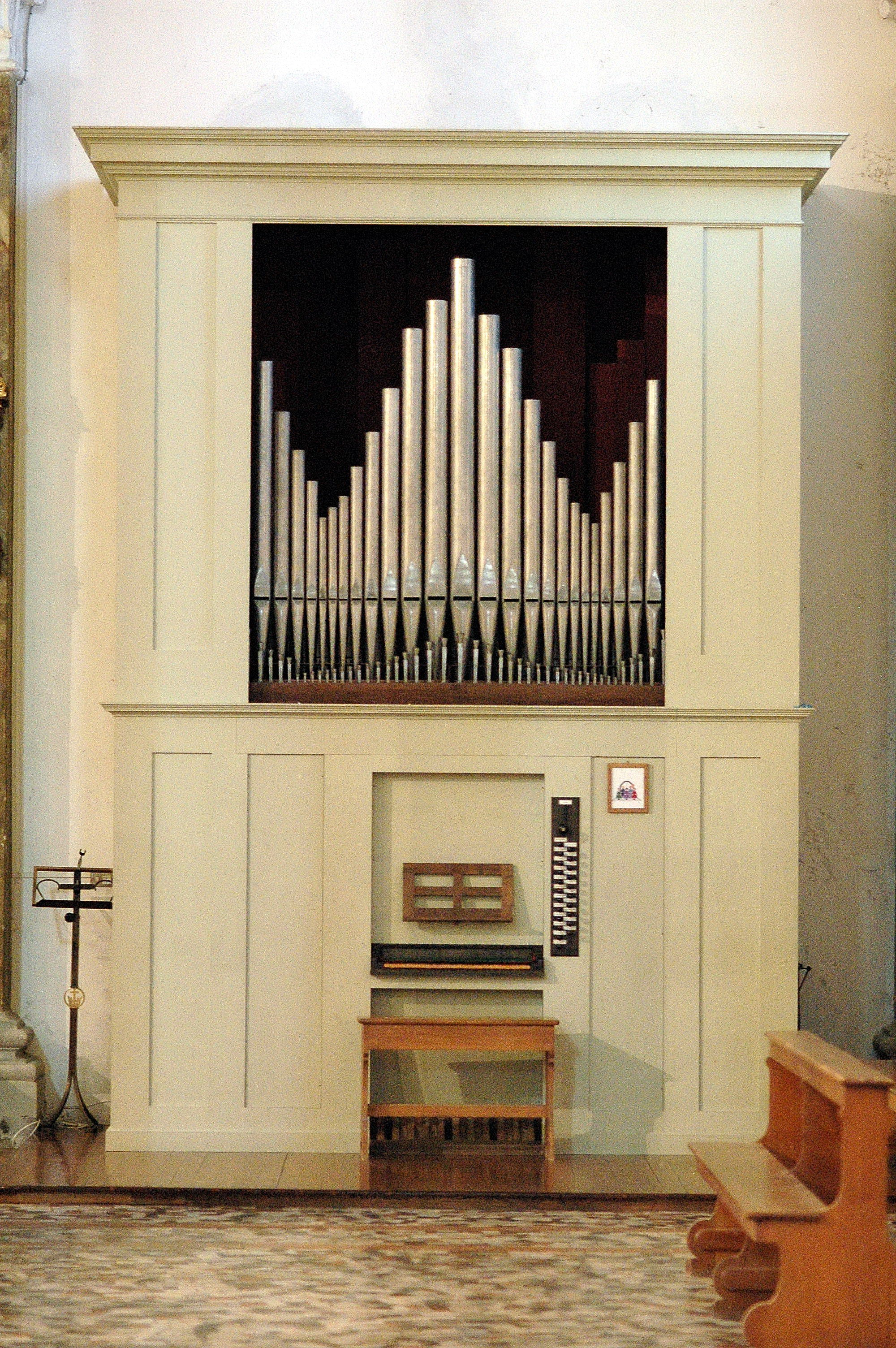 Organ in the church of San Pietro al Natisone, province of Udine, Italy